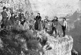 Buffalo Bill in Grand Canyon in 1916.